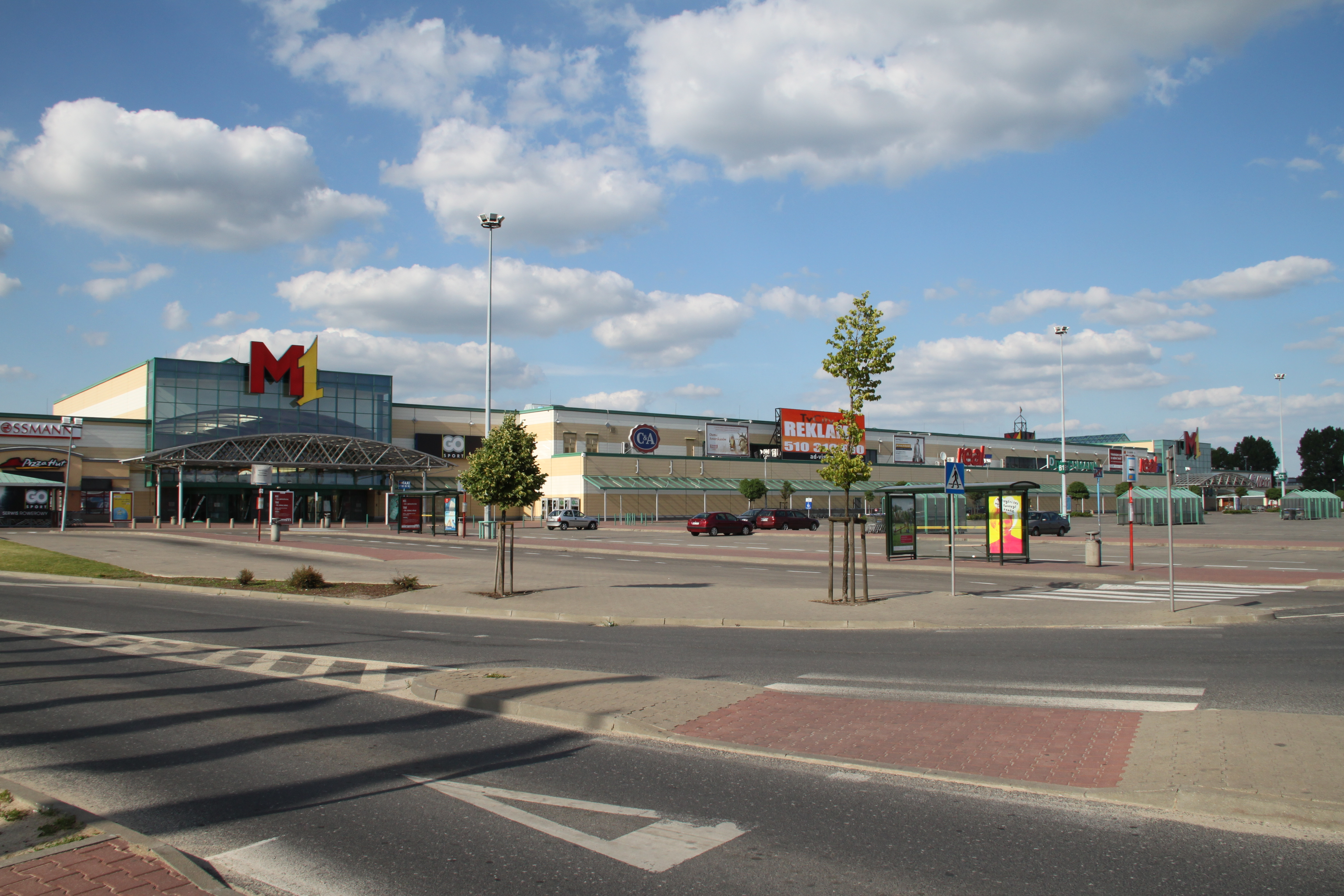 CH Marki, Marki/Warsaw, Poland.